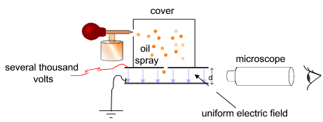 Simplified scheme of Millikan’s oil-drop experiment.